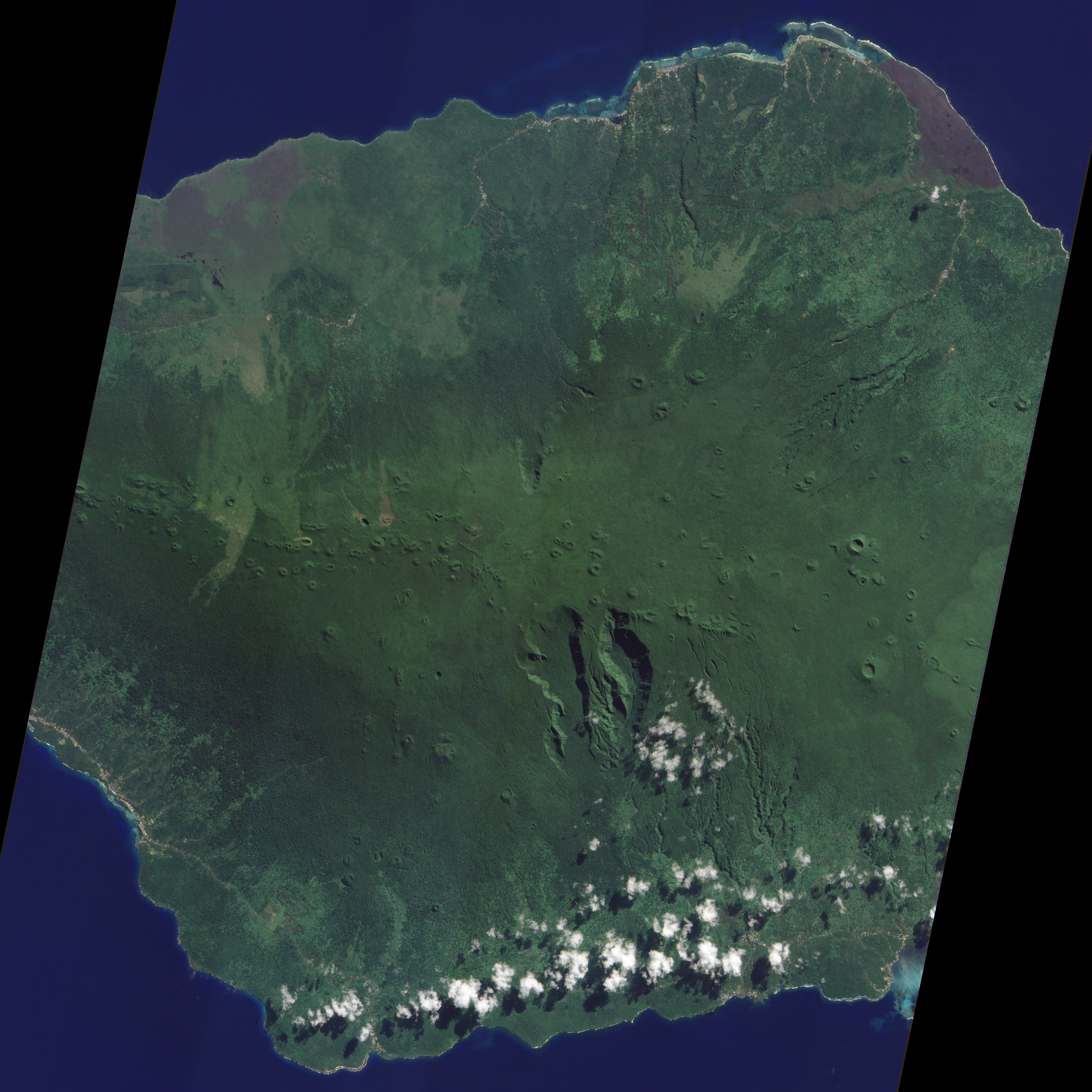 Savaii, Samoa NASA Earth Observatory image created by Jesse Allen and Robert Simmon, using EO-1 ALI data provided courtesy of the NASA EO-1 team. Caption by Michon Scott. Instrument: EO-1 - ALI